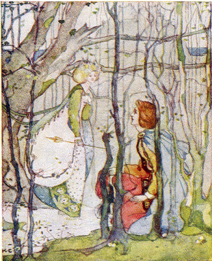 From Thomas the Rhymer (retold by Mary MacGregor, 1908), originally captioned "Under the Eildon tree Thomas met the lady." The "lady" here is Queen of Elfland.